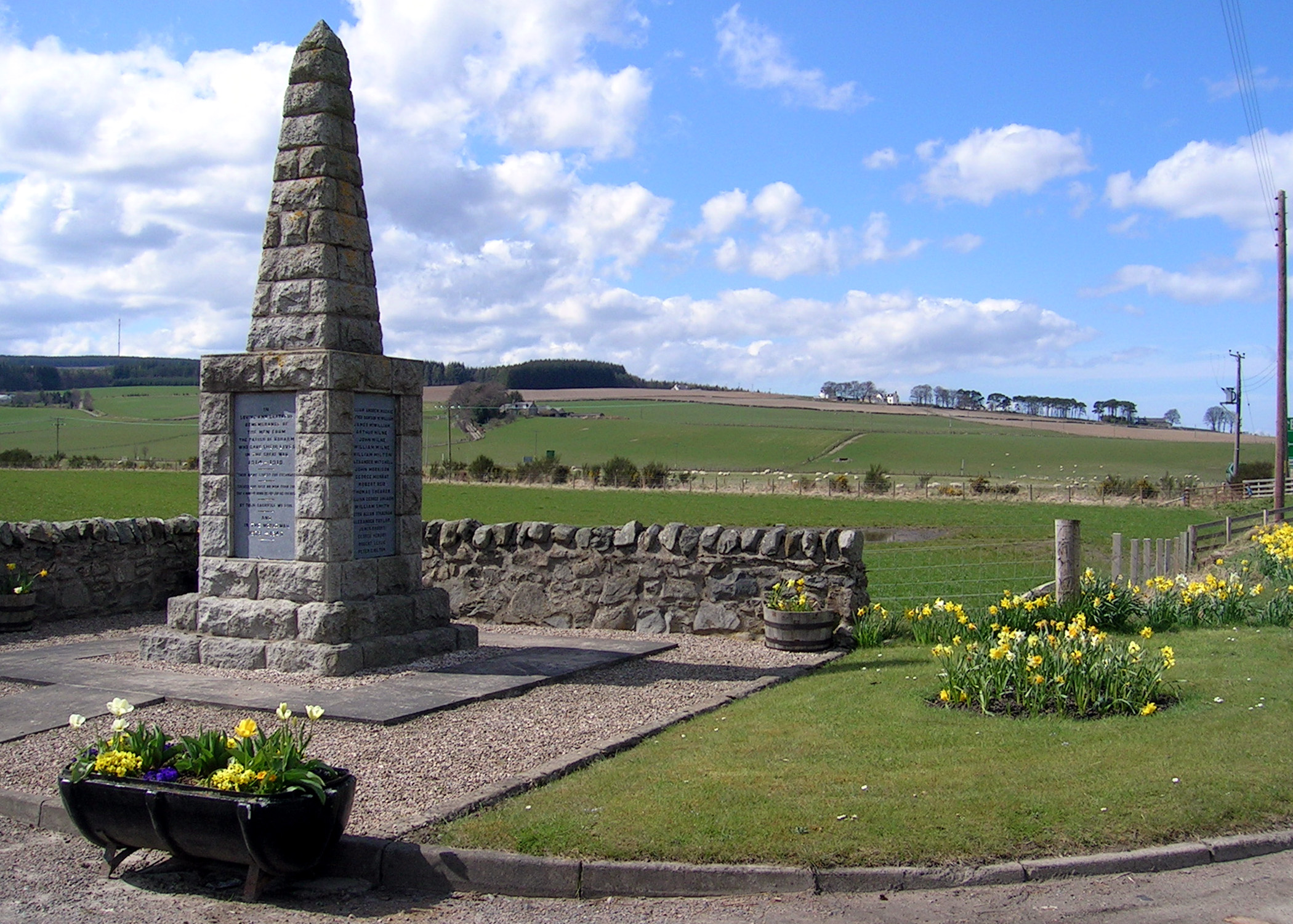 A view looking southwest from the war memorial in the Banffshire village of Mulben